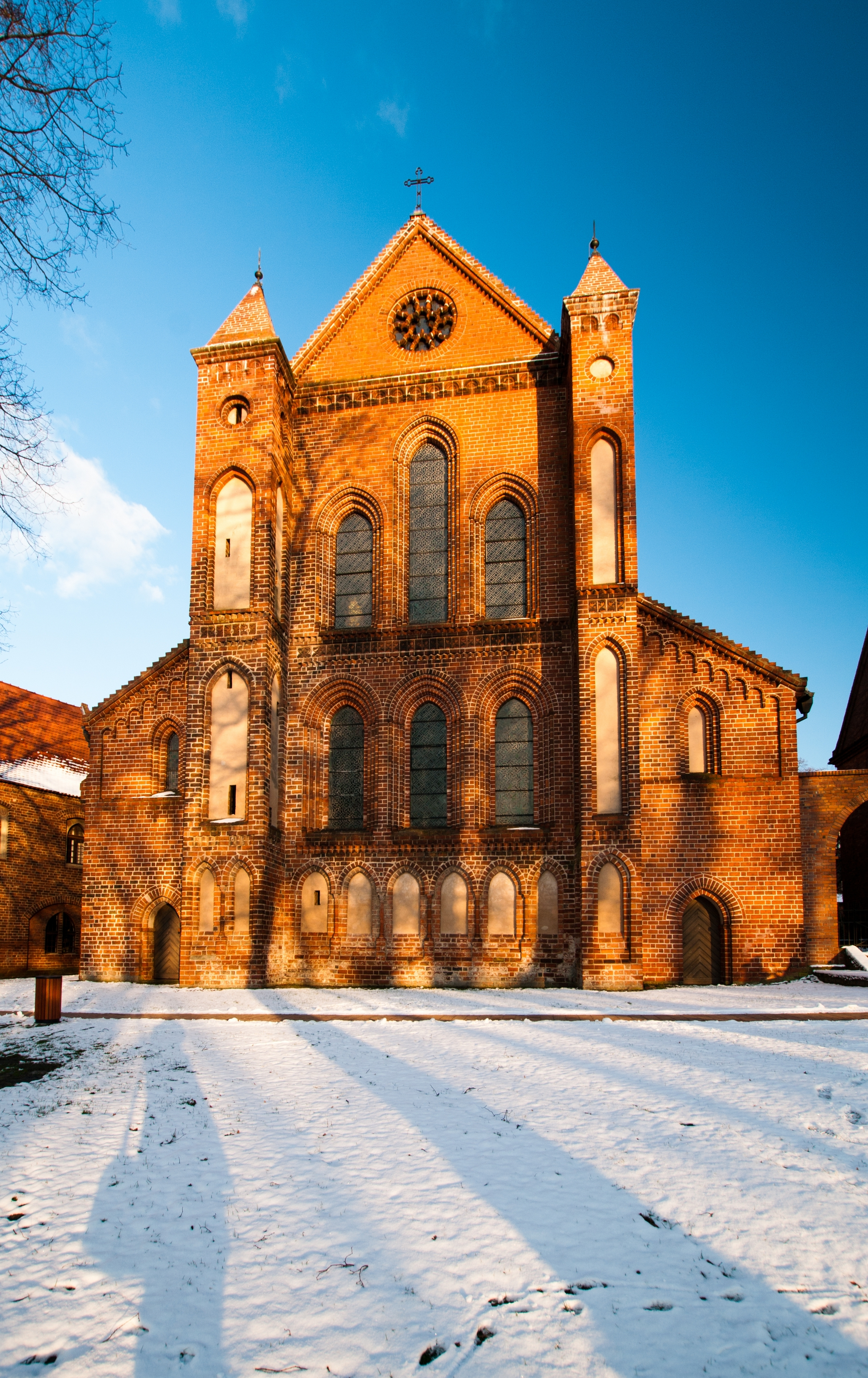 Kloster Lehnin in Winter